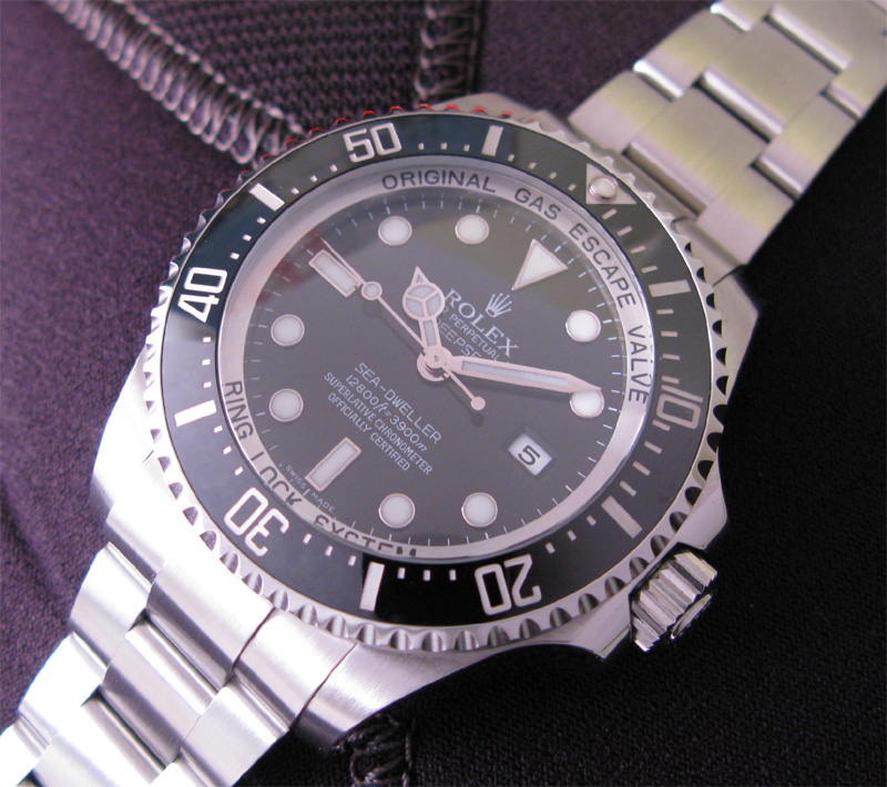 Rolex Oyster Perpetual Sea-Dweller DEEPSEA (Ref. 116660)